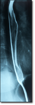 Barium swallow image showing the Oesophagus.